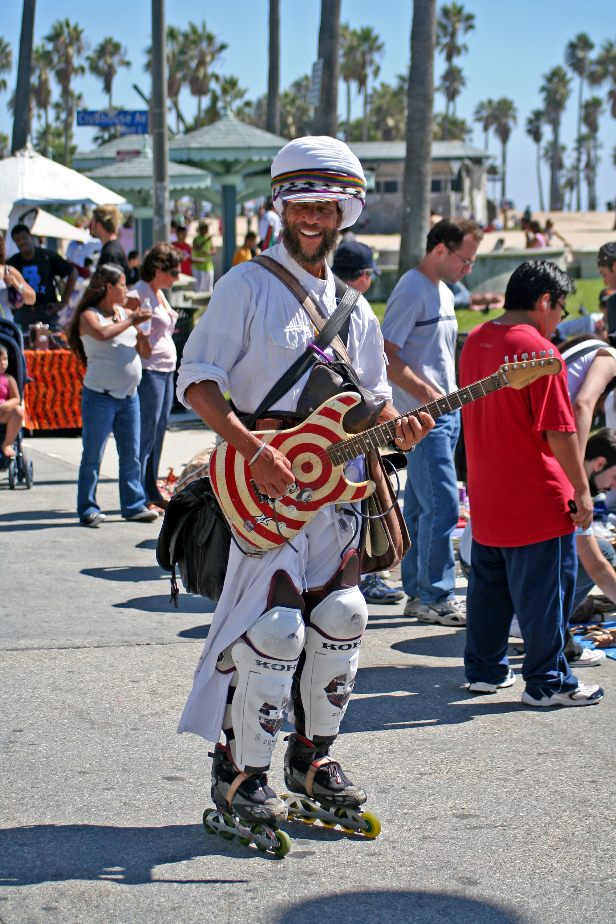 tom bernard playing a guitar